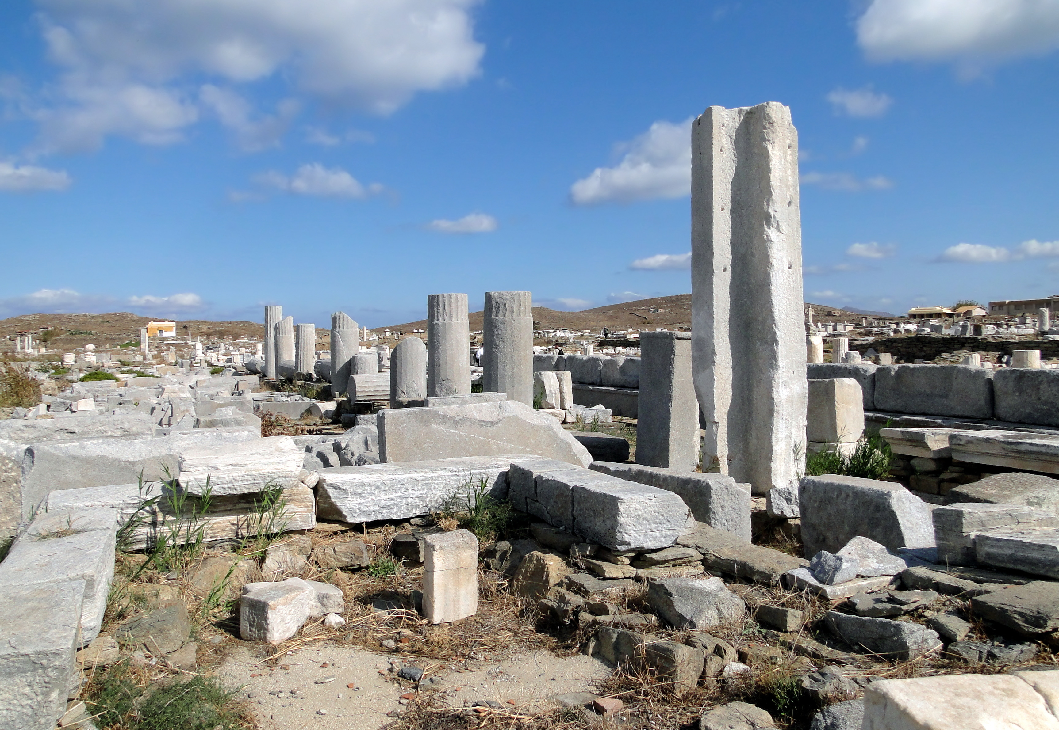 The Stoa of Philip on the west side of the Sacred Way in Delos, Greece